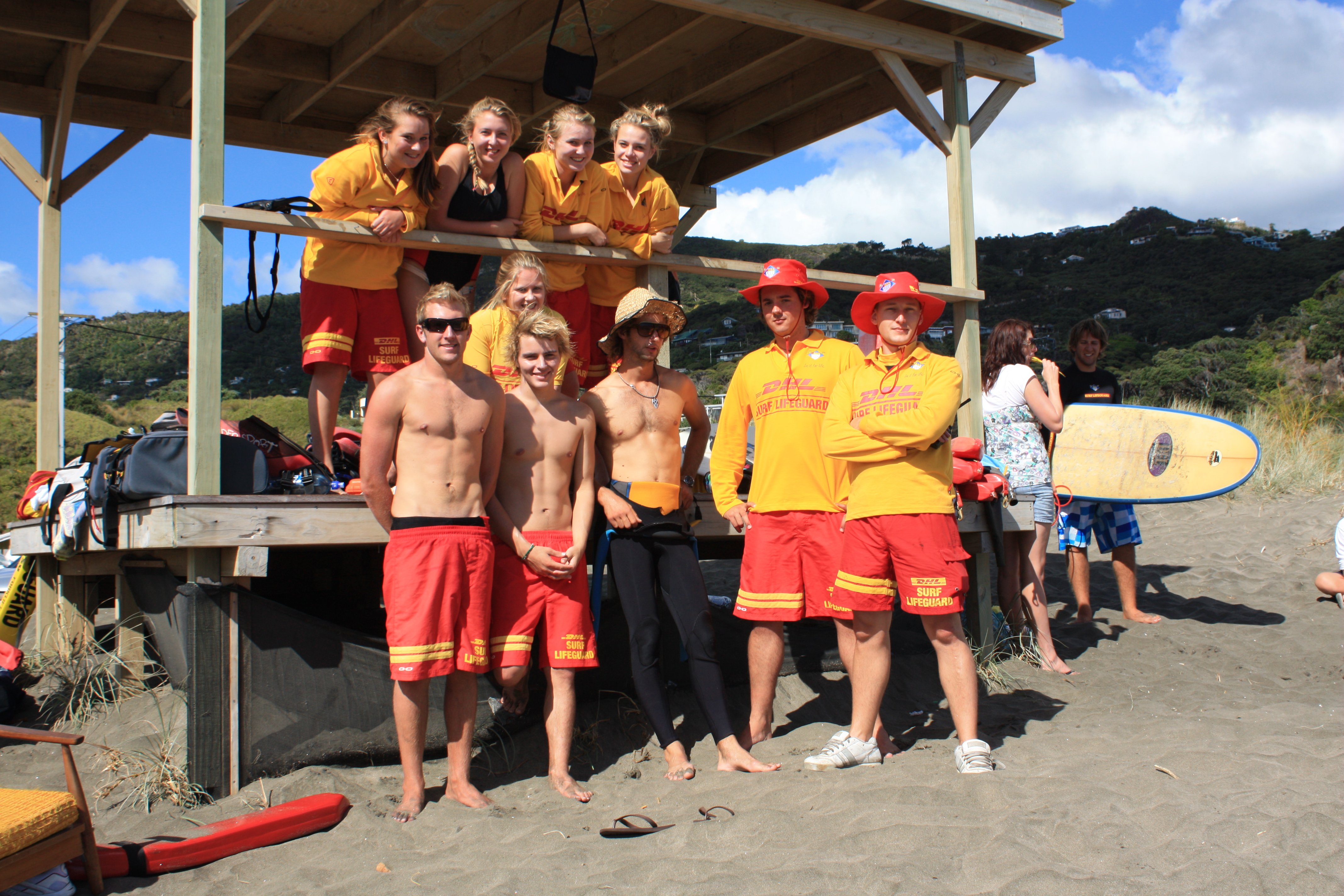 Piha Lifeguards - Photo